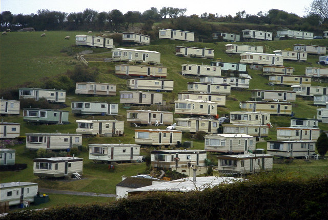 Caravan Park Beer South Devon. Caravan park above the cliffs at Beer